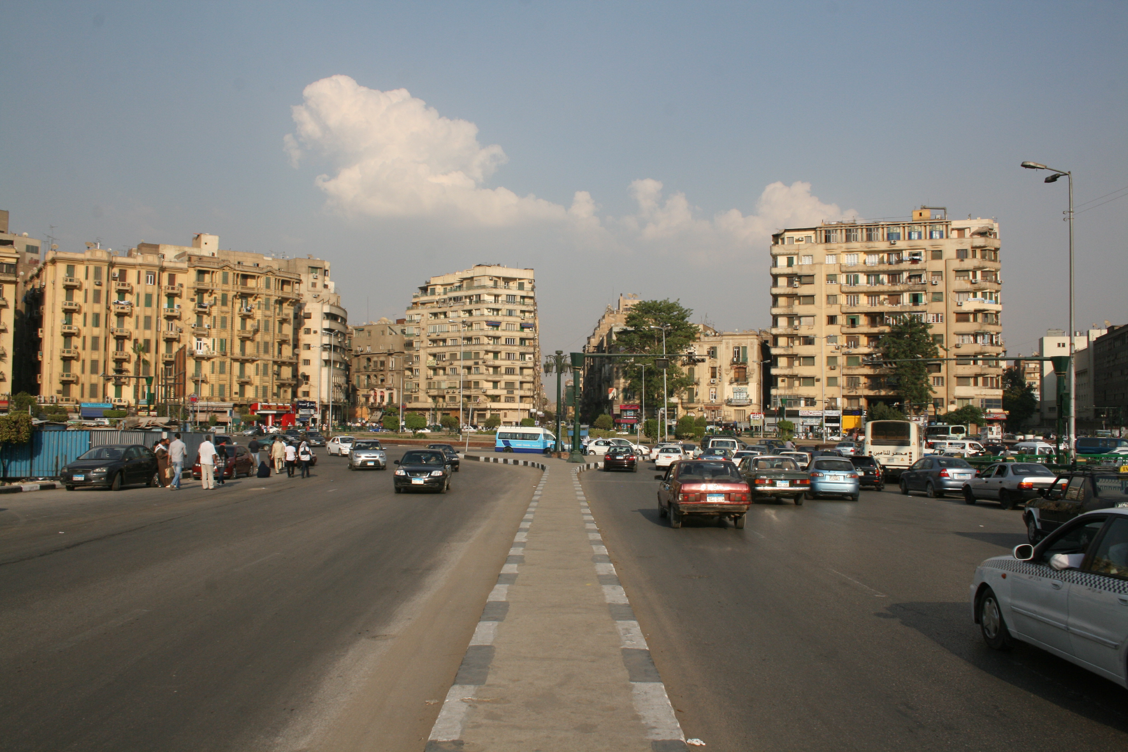 Qasr al-Nil Street, Tahrir Square, Cairo, Egypt